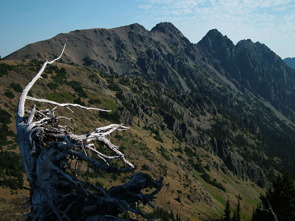 Photograph taken by Seth Cowdery on September 3, 2006. Buckhorn Mountain in the Buckhorn Wilderness, Olympic National Forest, Olympic Peninsula, Washington, United States.